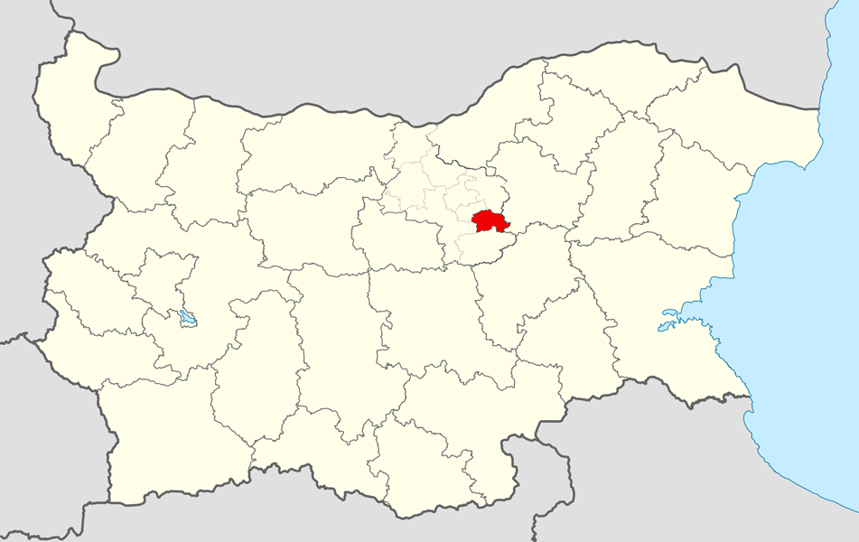 Location map of Zlataritsa Municipality within Bulgaria and Veliko Tarnovo Province. Equirectangular projection, N/S stretching 130 %. Geographic limits of the map: N: 44.4° N S: 41.1° N W: 22.1° E E: 28.9° E